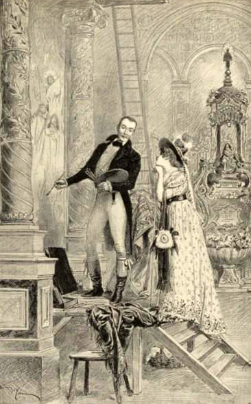 Illustration of Act 1 of Sardou's La Tosca printed in the journal, Le Théâtre, illustrée, 1887